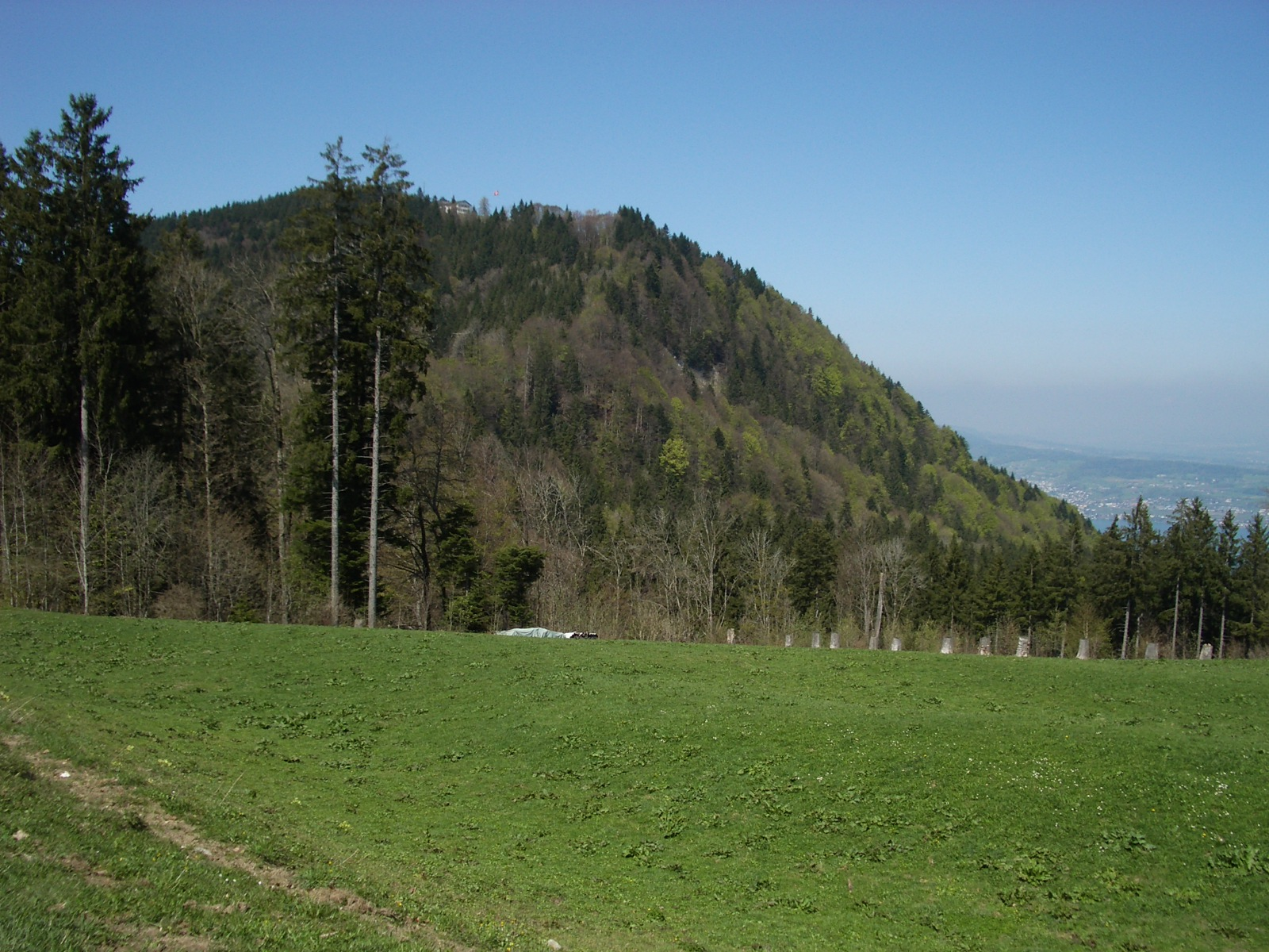 Mount Etzel SZ, Switzerland